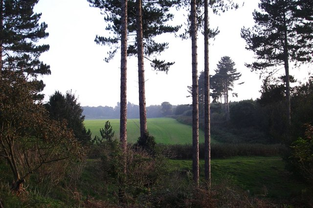 Supposed UFO landing site - Rendlesham Forest In the last days of 1980 UFOs reputedly landed in the eastern edge of Rendlesham Forest - Right, middle distance in this view (the trees are Corsican Pine).